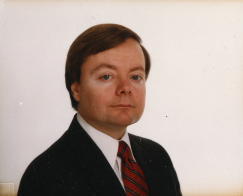 Portraits of Gary Bauer